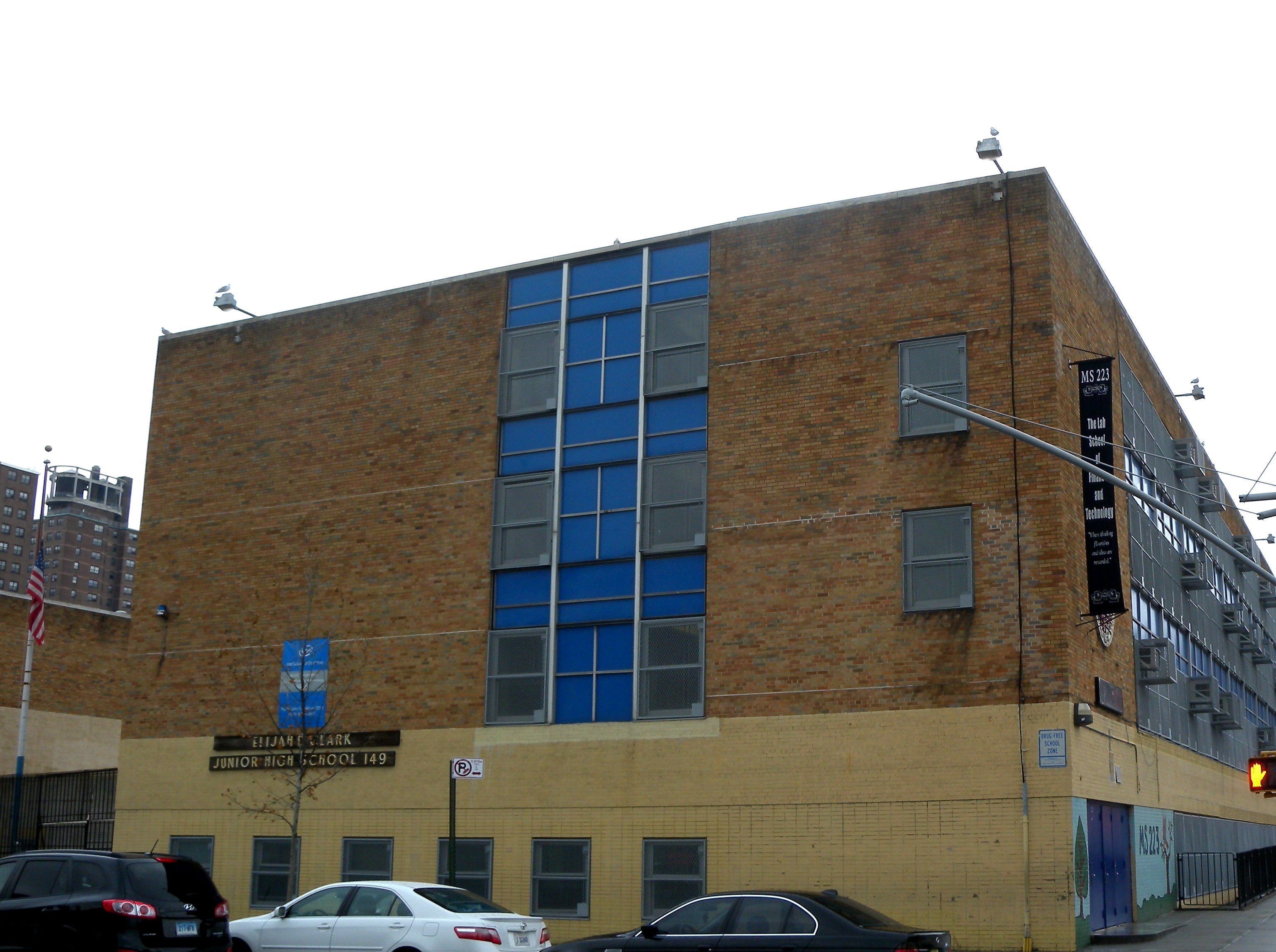 Looking west across Willis Avenue and East 145th Street at JHS 149 / MS 223 on a rainy midday.